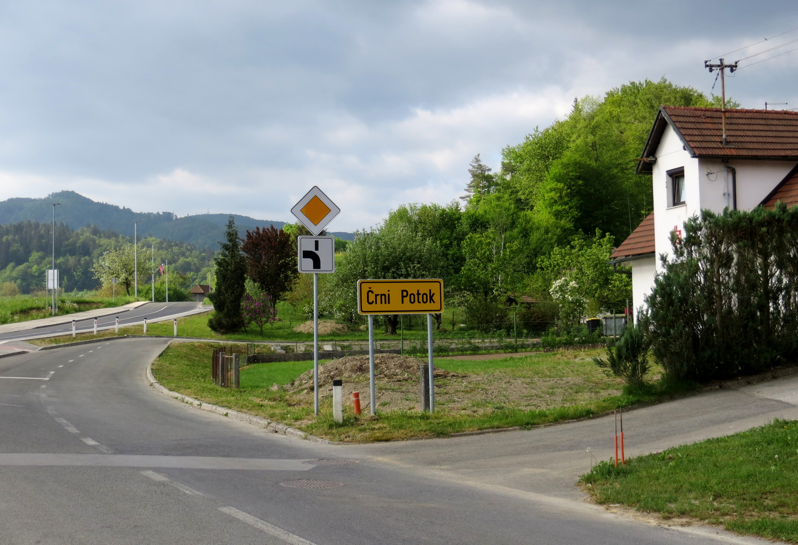 Črni Potok, Municipality of Šmartno pri Litiji, Slovenia